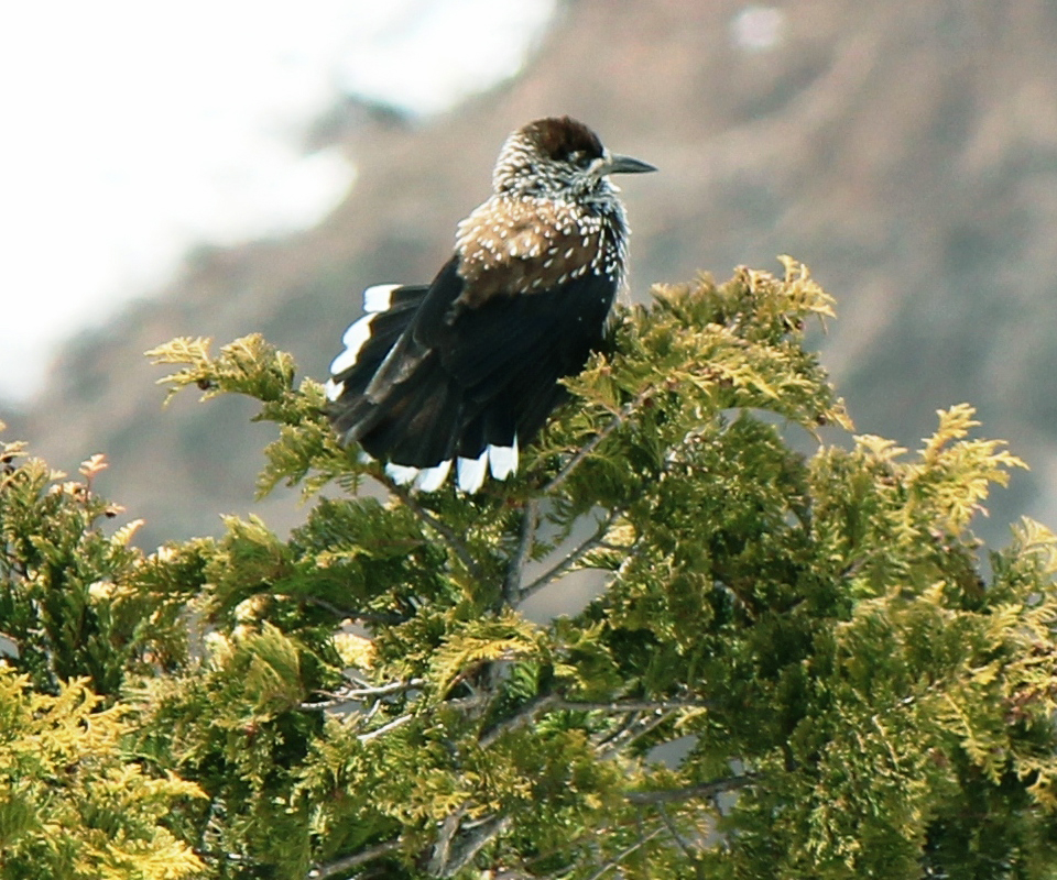 Nucifraga caryocatactes japonica (Spotted Nutcracker) perched on Chamaecyparis pisifera; Mount Sanpoiwa, Japan.